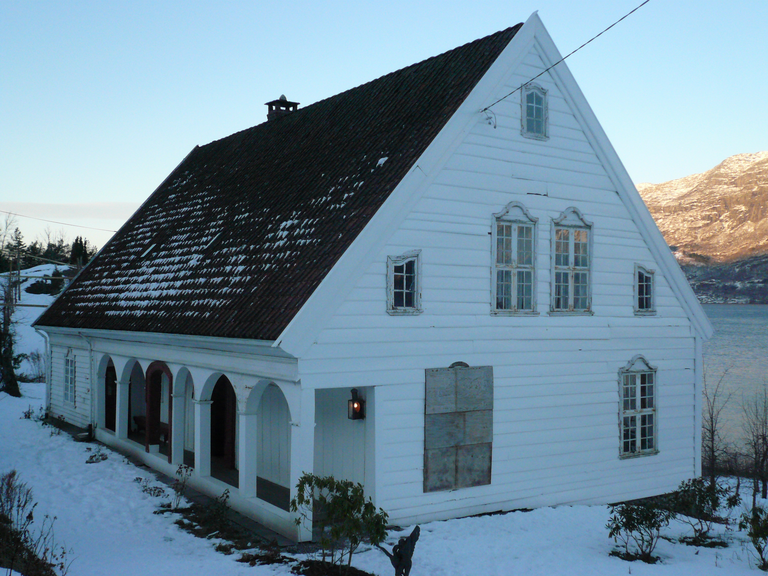 Hesthamar, Ullensvang, Hordaland, Norway